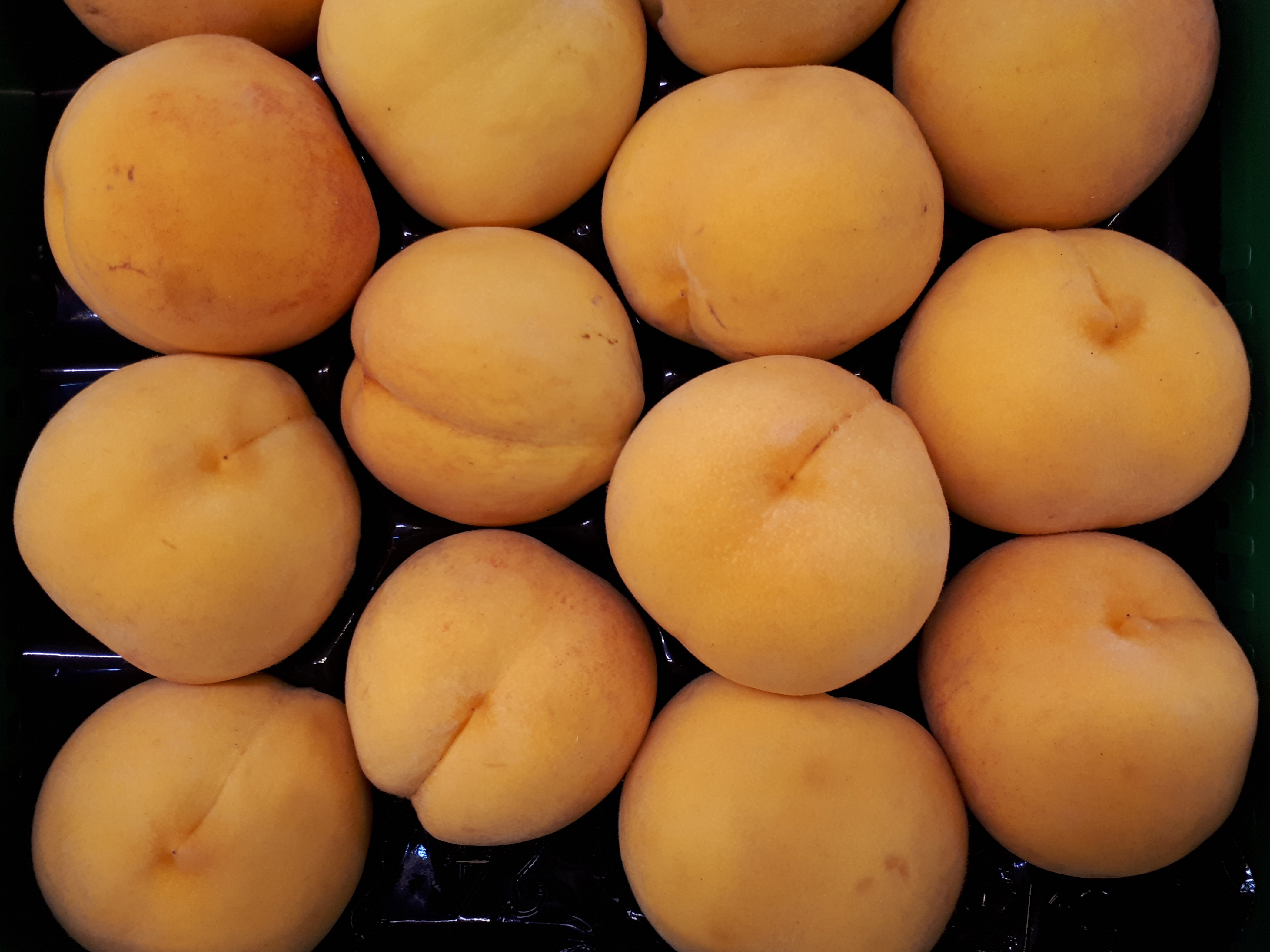 Calanda peaches